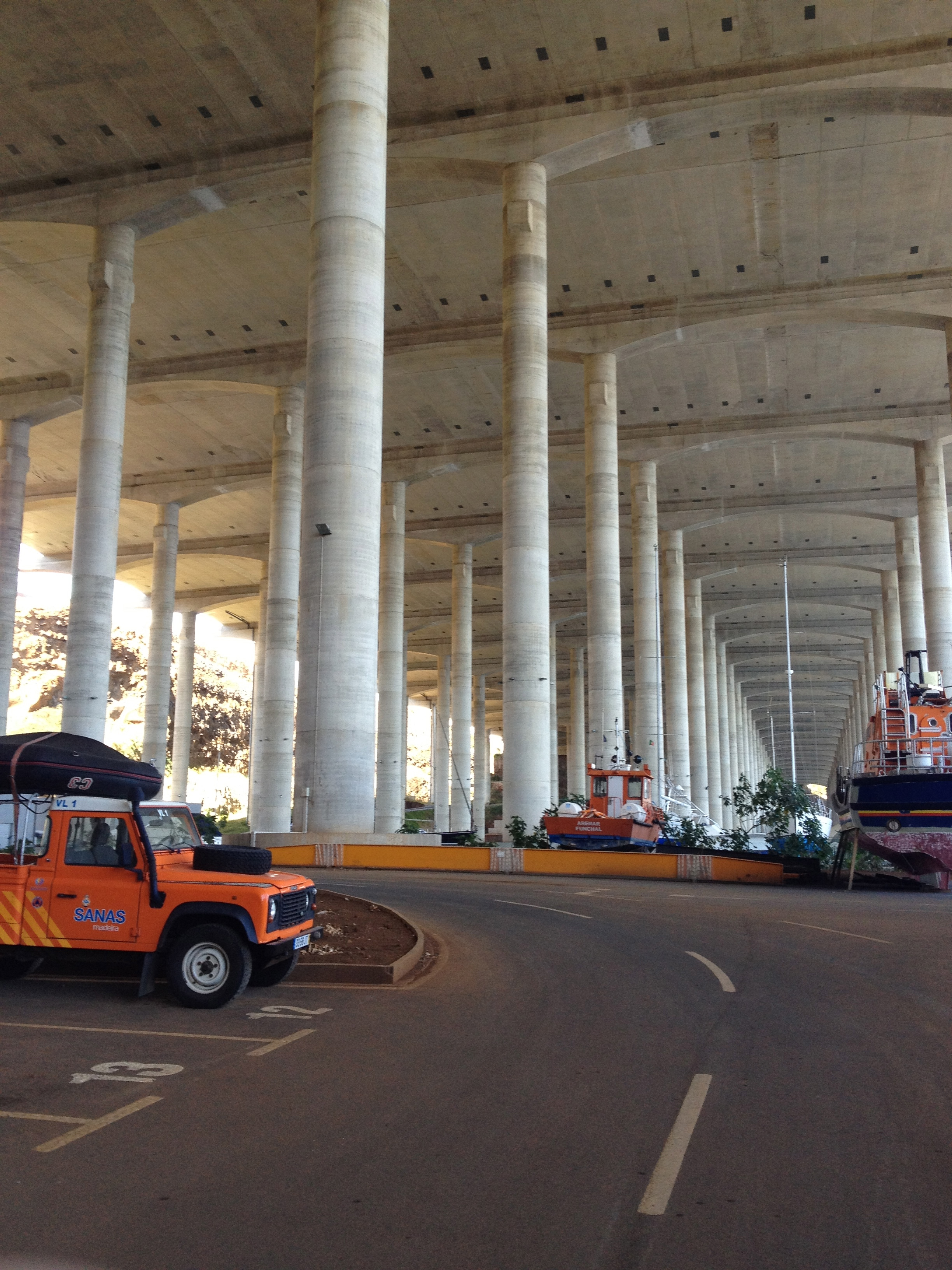 Airport Madeira